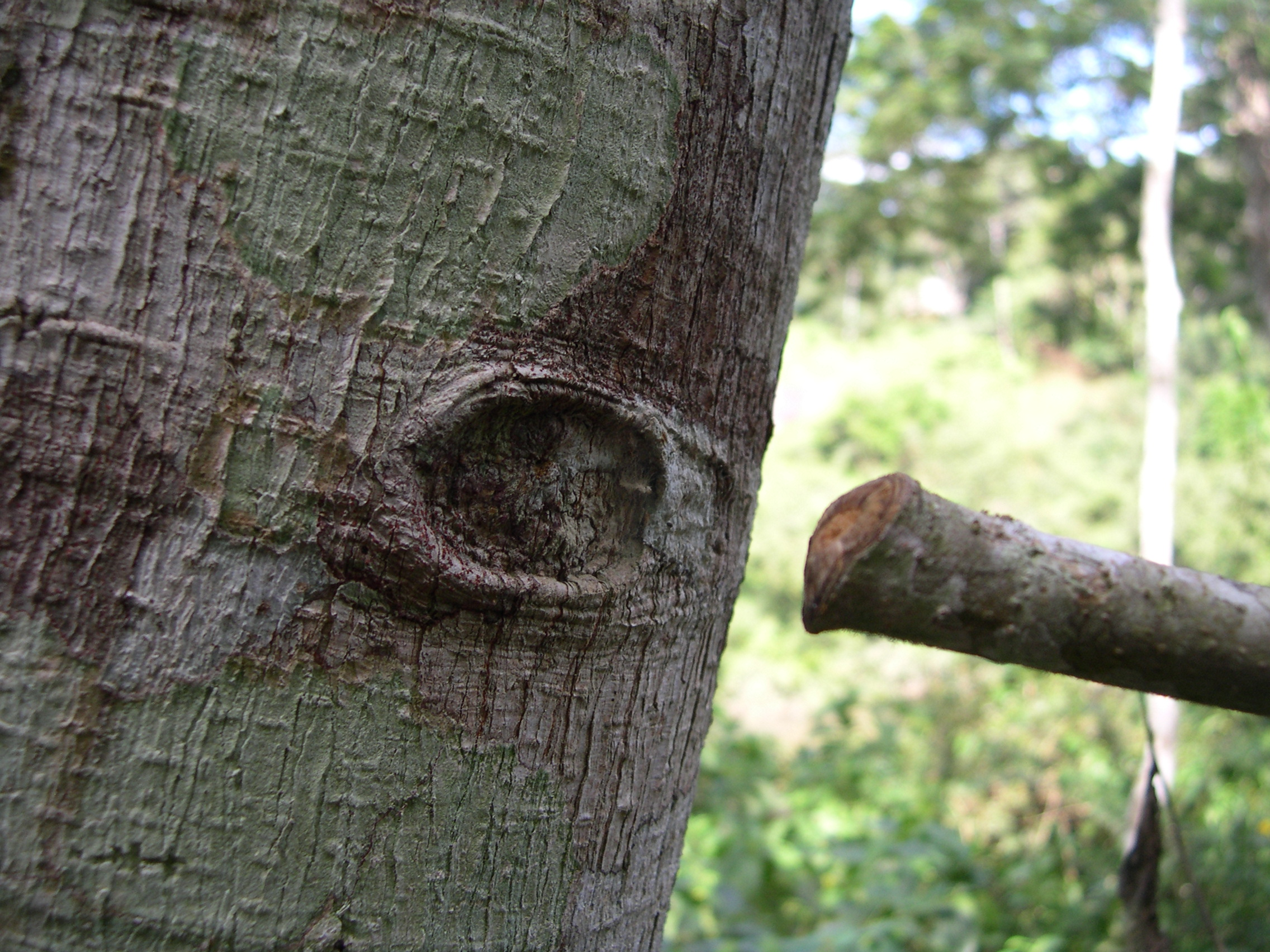 Trunk of Castilla elastica (Panama rubber tree), showing scar where a branch has been shed. A recently fallen branch is posed at right. Belize, 2006.